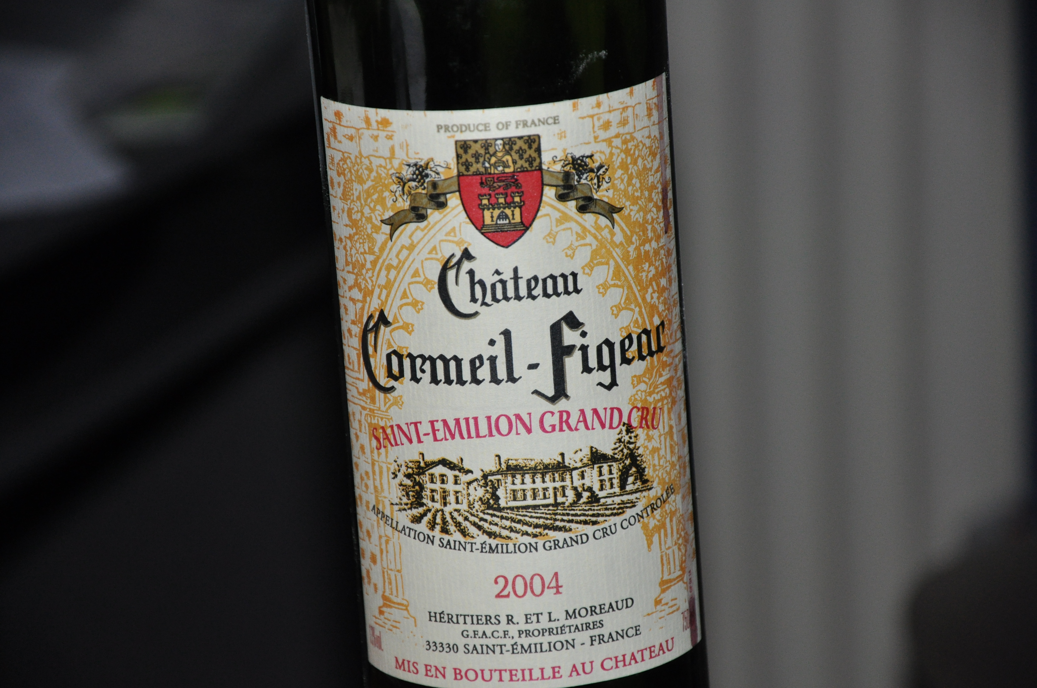 "Chateau Cormeil-Figeac": a french Saint-Emilion bordeaux wine.